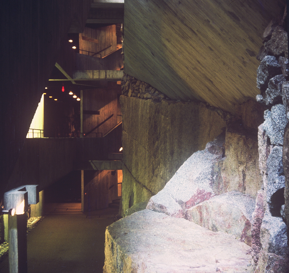 Interior of Hotel Mesikämmen in Ähtäri, Finland.